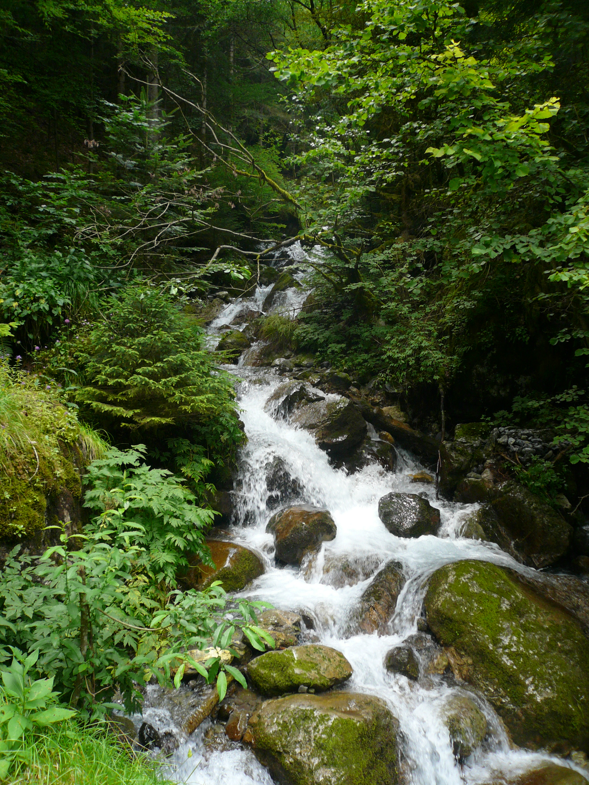 Torrent of Arclusaz in forest of Bellevaux, city of École, Savoy, France.